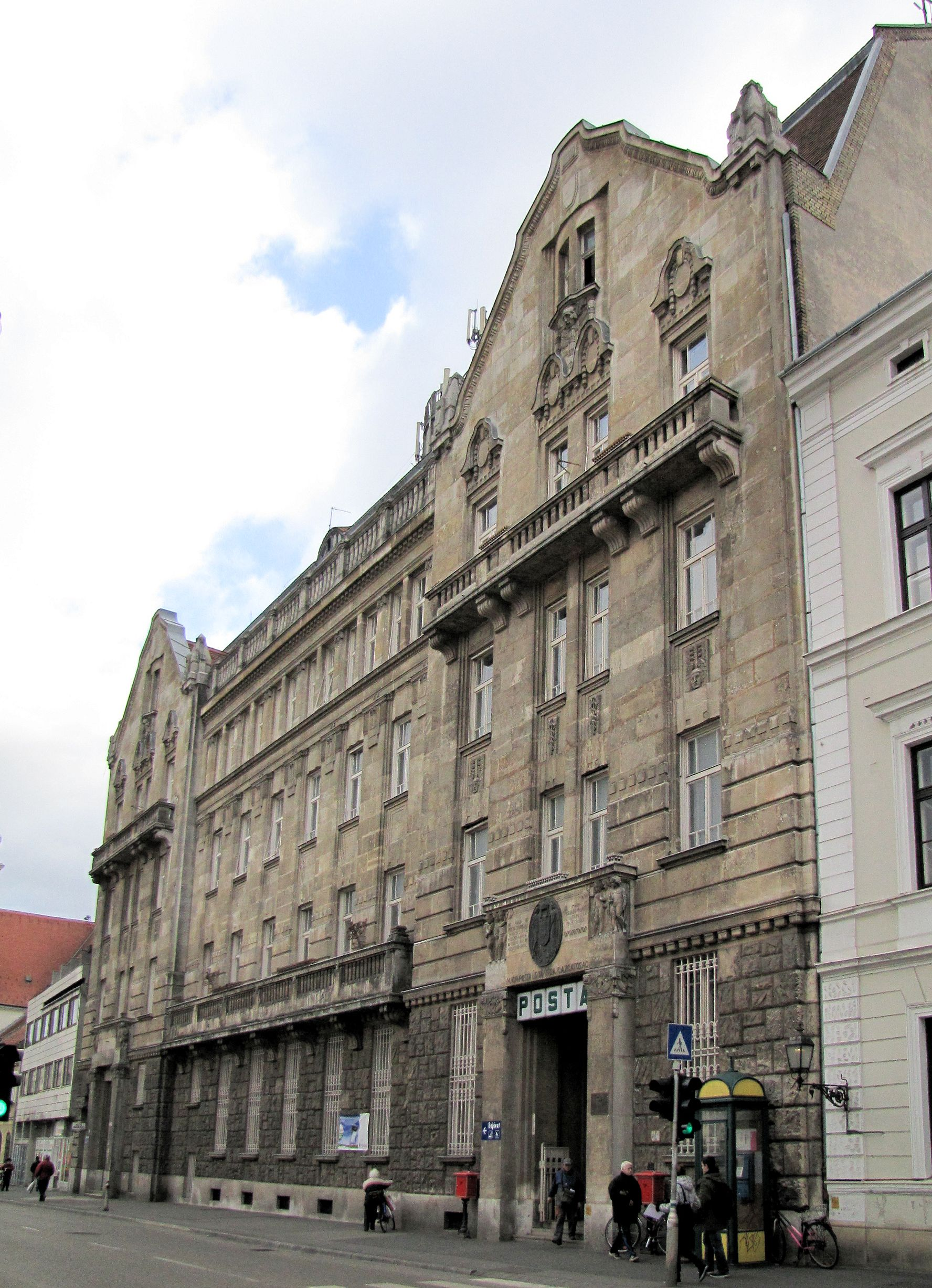 Sopron, Main Post office. Architect: Ambrus Orth & Emil Somló, 1913